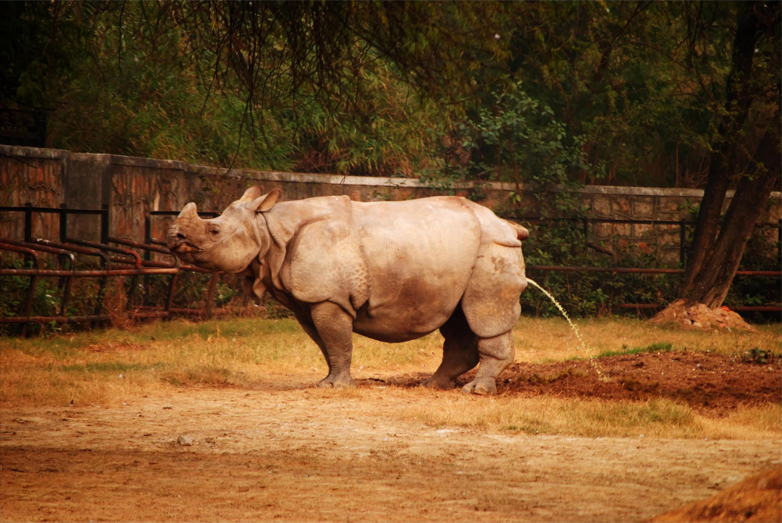 Zoo Shoot